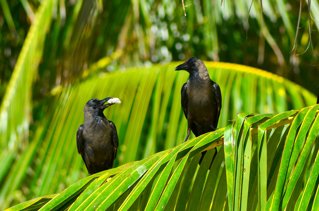 Maldive House Crows (Corvus splendens maledivicus)